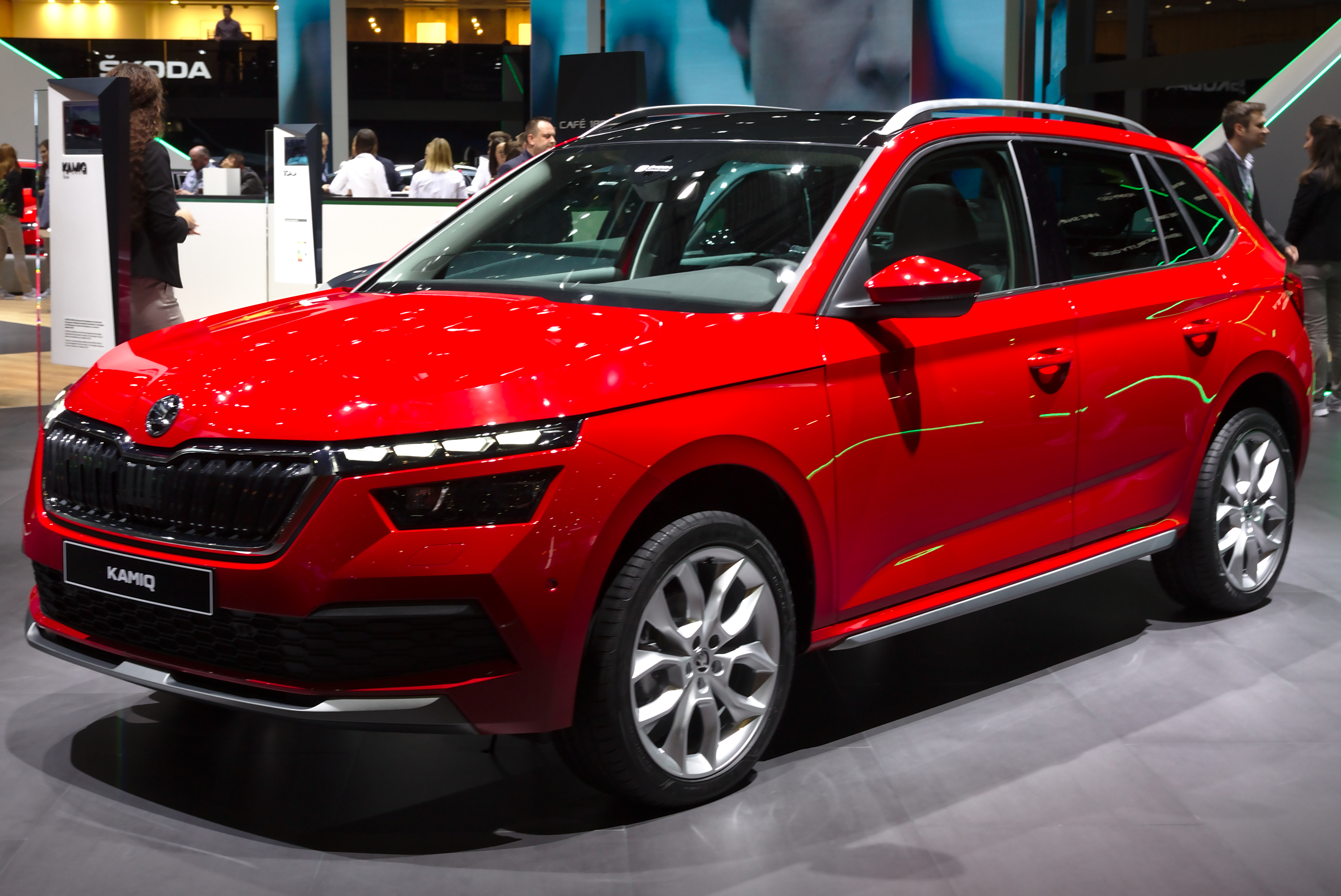 Škoda Kamiq at Geneva Motor Show 2019